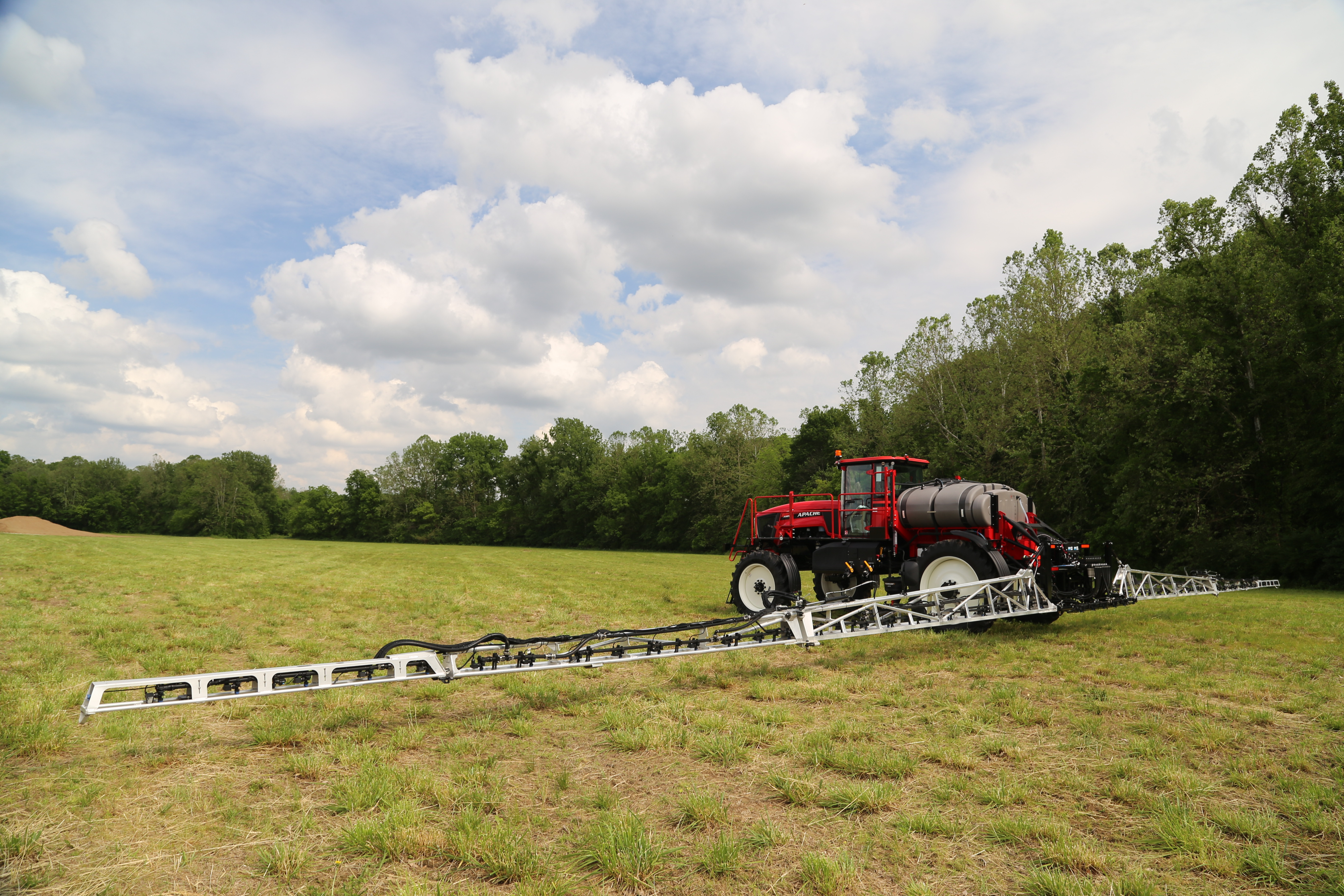 An example of a self-propelled agricultural sprayer with aluminum booms made by Equipment Technologies.